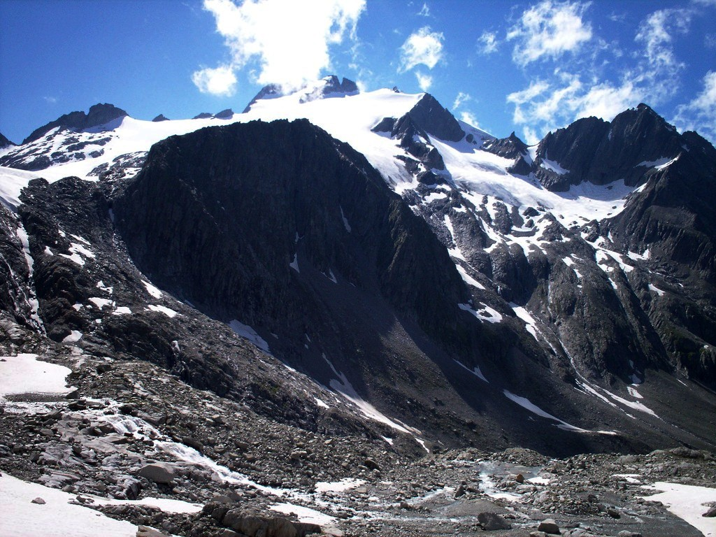 Oberalpstock